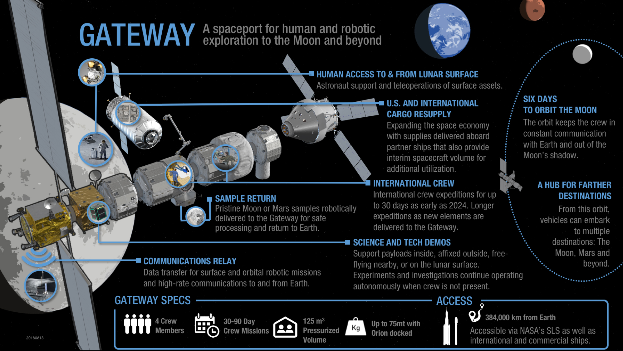 General information of capabilities for NASA's Lunar Orbital Platform-Gateway (LOP-G)